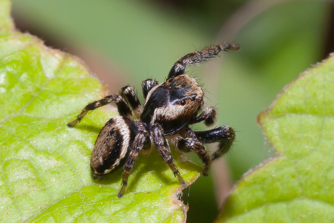 Evarcha falcata, Valverde, Vilarromarís, Oroso, Galicia, SpainGalego: Araña (Evarcha falcata), Valverde, Vilarromarís, Oroso, Galiza Determinada en por Rafael González.